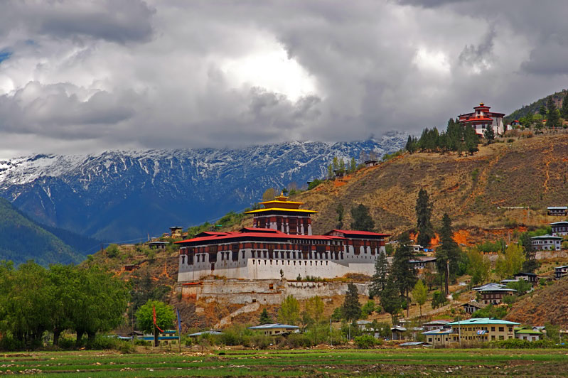 I borrowed the title from a book written in the 60s by the late Californian buddhist philosopher Alan Watts. I feel it fits perfectly with the Kingdom of Bhutan. Bhutan is one of the most mysterious country of the world. When talking about Bhutan, you realize fast that many people never even heard about this small remote himalayan kingdom. Landlocked in the western Himalayas between India and China, Bhutan was in self-imposed isolation for centuries. When looking at the fate of other himalayan countries around, it looks like its isolation served it quite well. Paro Dzong above is the centre of civil and religious authority in the Paro valley in western Bhutan. There is nothing that looks like a city in this valley, just a one street village with a few shops and restaurants. Paro hosts the only international airport in Bhutan since it was the only valley that was large enough. The airport has one runway and serves a single airline Druk Air which owns 2 aircrafts. The Dzong was built in 1646 by Shabdrung Ngawang Namgyal and was used to defend Paro valley from invasions by Tibet. It is also known as Rinpung Dzong; which means “ Fortress on a Heap of Jewels”. It survived an earthquake in 1897 and was severely damaged by a fire in 1907, but was rebuilt the following year. Many scenes from the 1995 film Little Buddha were filmed in the Paro Dzong. Every year a Tsechu is held at this Dzong in honour of Guru Rinpoche (Padmasambhava). On a ridge, immediately above the Paro Dzong, is the small, circular Ta Dzong which was once the watchtower of the valley. It was built in 1656 and has since been renovated in 1968 to house the National Museum. This Museum houses ancient Bhutanese treasures and artefacts, as well as a collection of Bhutan’s exquisite and world-renowned postage stamps. As you wander through this Museum you will find a doorway that leads to the Tshogshing Lhakhang, the Temple of the Tree of Wisdom, which was built between 1965 and 1968.